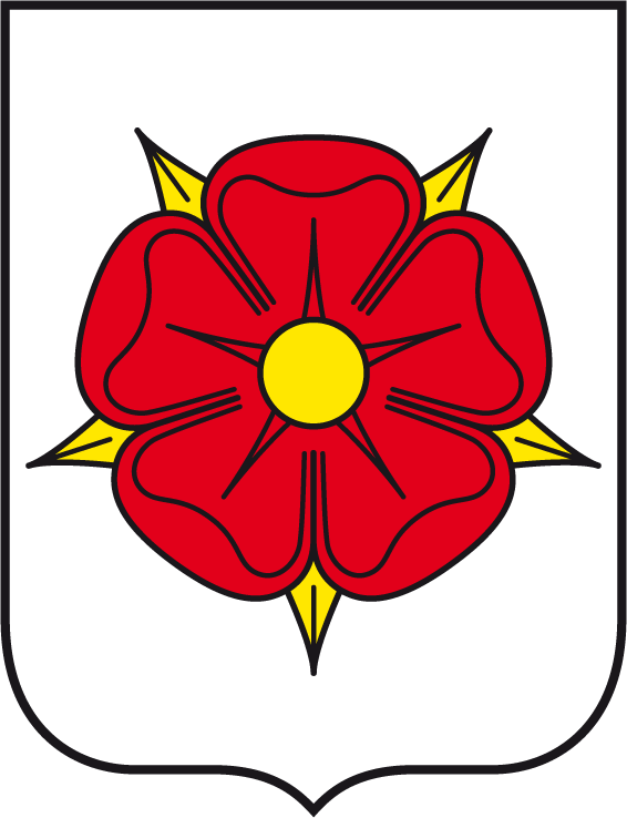 Coat of arms of Free State of Lippe